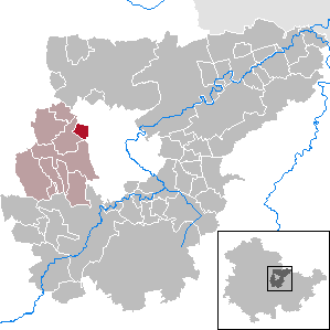 Daasdorf a. Berge in Thuringia - District Weimarer Land